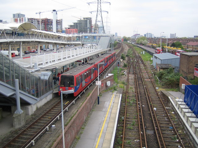 Custom House for ExCeL DLR station. On the left is the Custom House for ExCeL DLR Station with the ExCeL Exhibition Centre beyond. On the right is the now closed section of Network Rail's former North London Line, showing the platforms at the western end of Custom House station. Beyond that to the right is Victoria Dock Road with the two buses. DLR Unit No. 79 is about to leave with an eastbound train for Beckton. Despite the line having been closed since December 2006 the Network Rail signal at the end of the westbound platform is still lit and showing red.